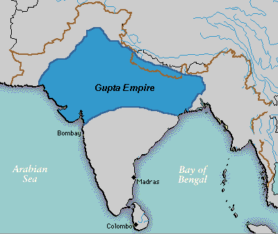 Image contains map of Indian subcontinent with location of Gupta Empire in blue.